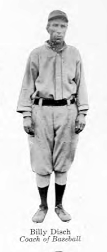 yearbook photo of Disch